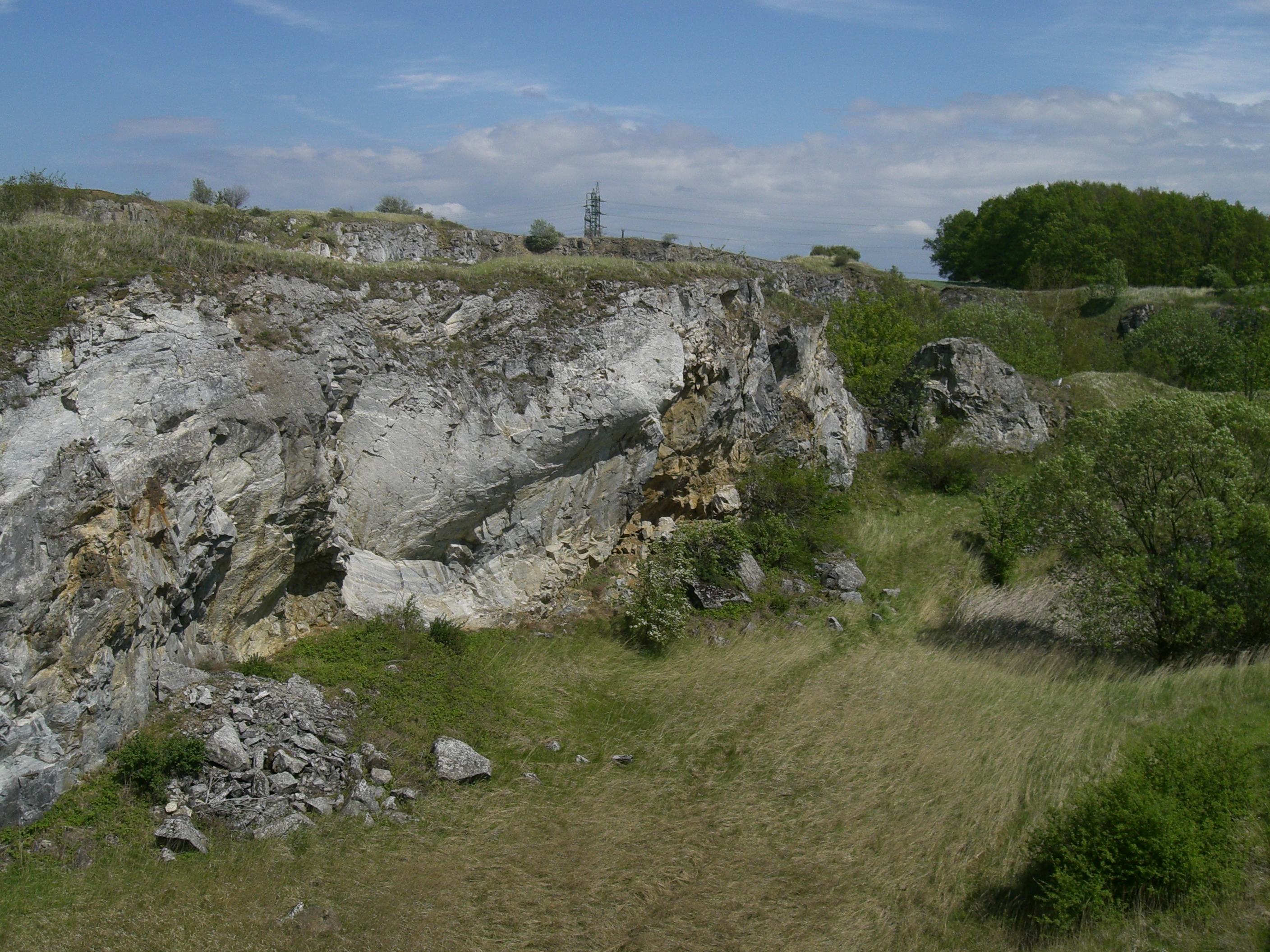 Protect area Nerestský Open-pit mining in Písek district, Czech Republic.